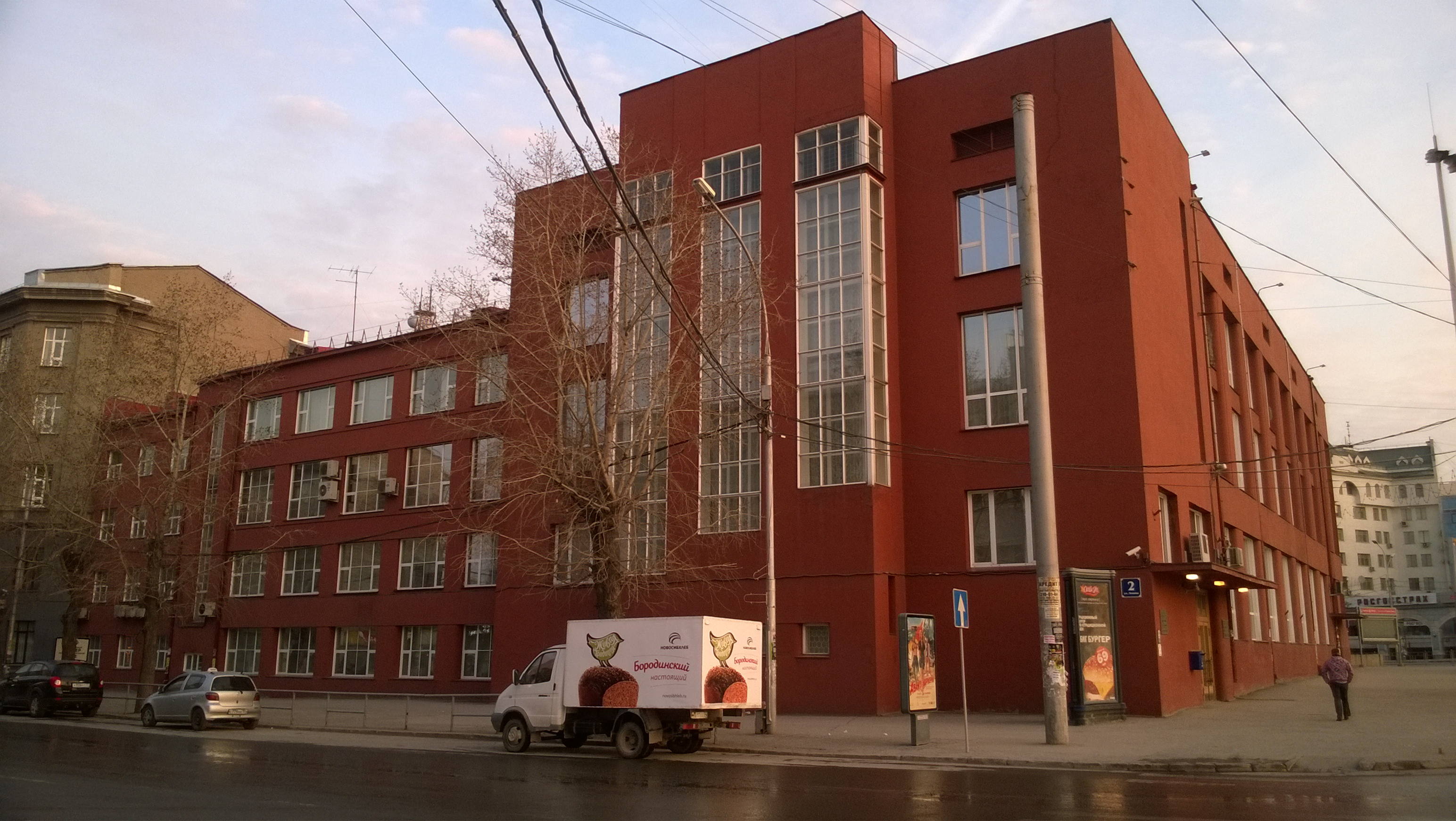 Red avenue, 27. Novosibirsk.